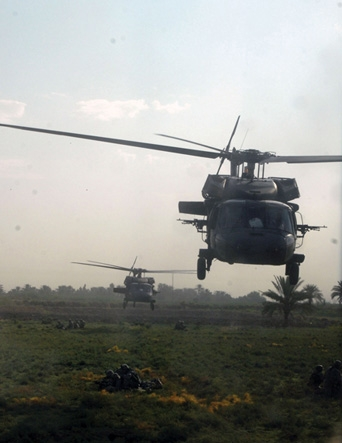 Operation Gecko weeds out bombs, insurgents in Jurf as Sakhr Photo by Sgt. Marcus Butler 4th BCT, 25th ID PAO September 05, 2007 Paratroopers from 1st Battalion, 501st Parachute Infantry Regiment, take cover Aug. 21, after being dropped off by a UH-60 Black Hawk helicopter near Jurf as Sakhr, as part of Operation Gecko.